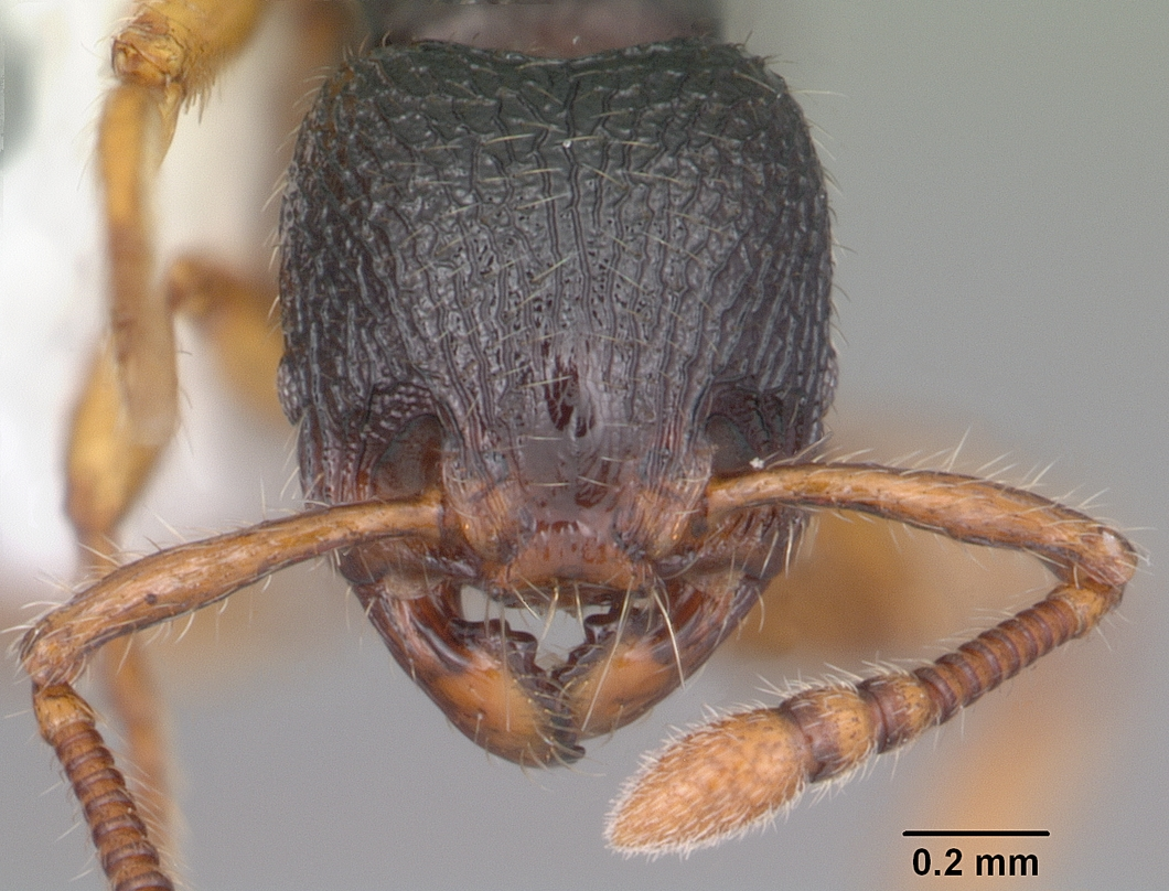 Head view of ant Myrmecina americana specimen casent0104118.